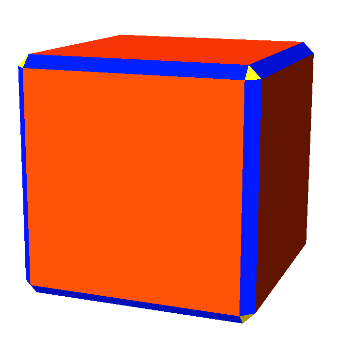 Near uniform polyhedra of octahedral family, slightly off to show Wythoff construction faces